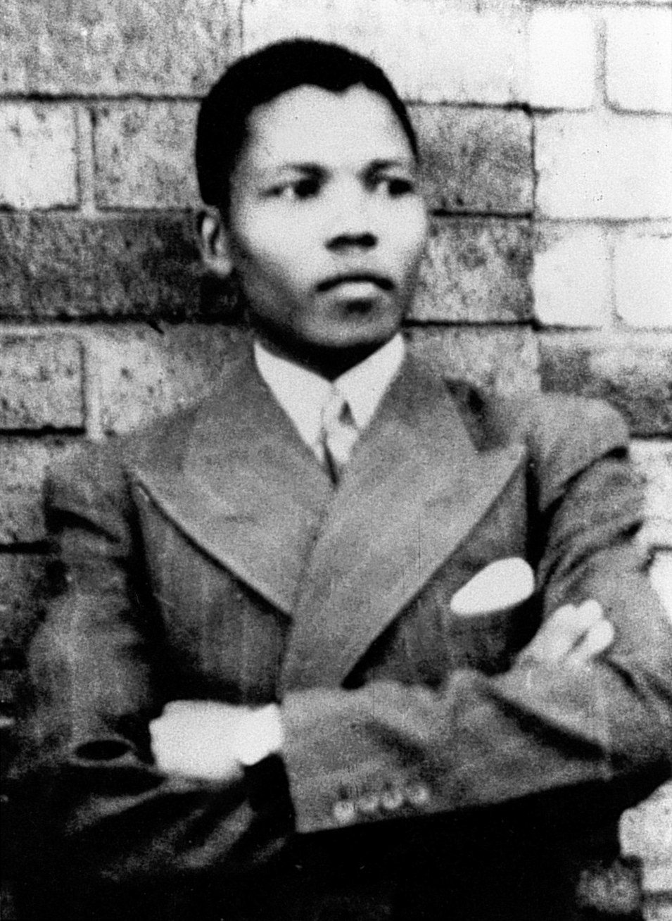 Nelson Mandela in Umtata at the age of 19.